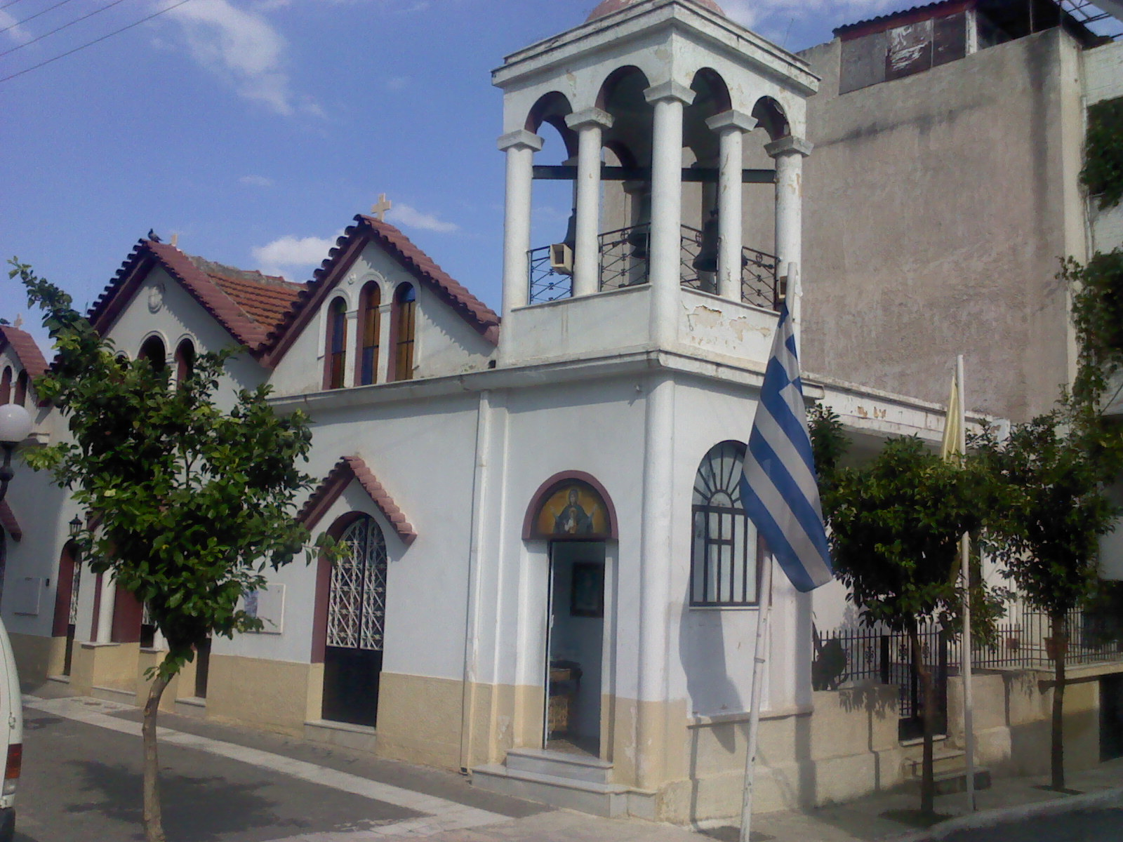 Evaggelistria Palaia Kokkinia